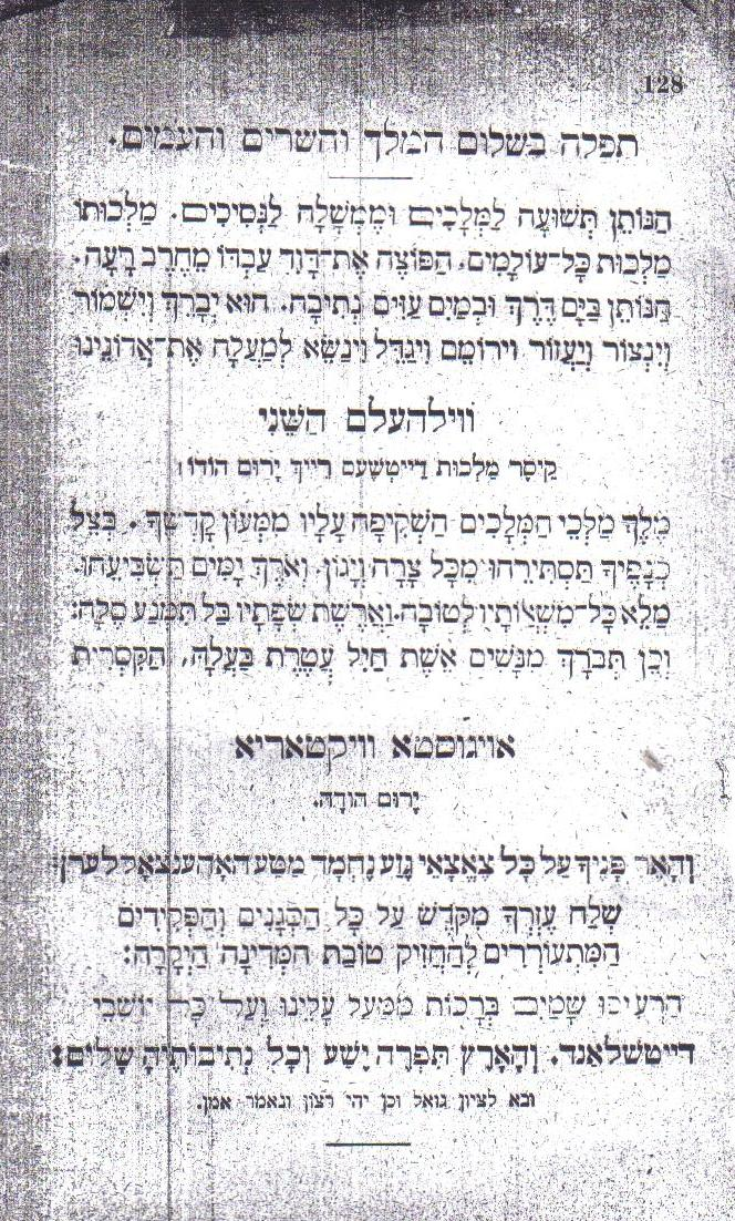 a Jewish prayer for the German Emperor Wilhelm II and his wife